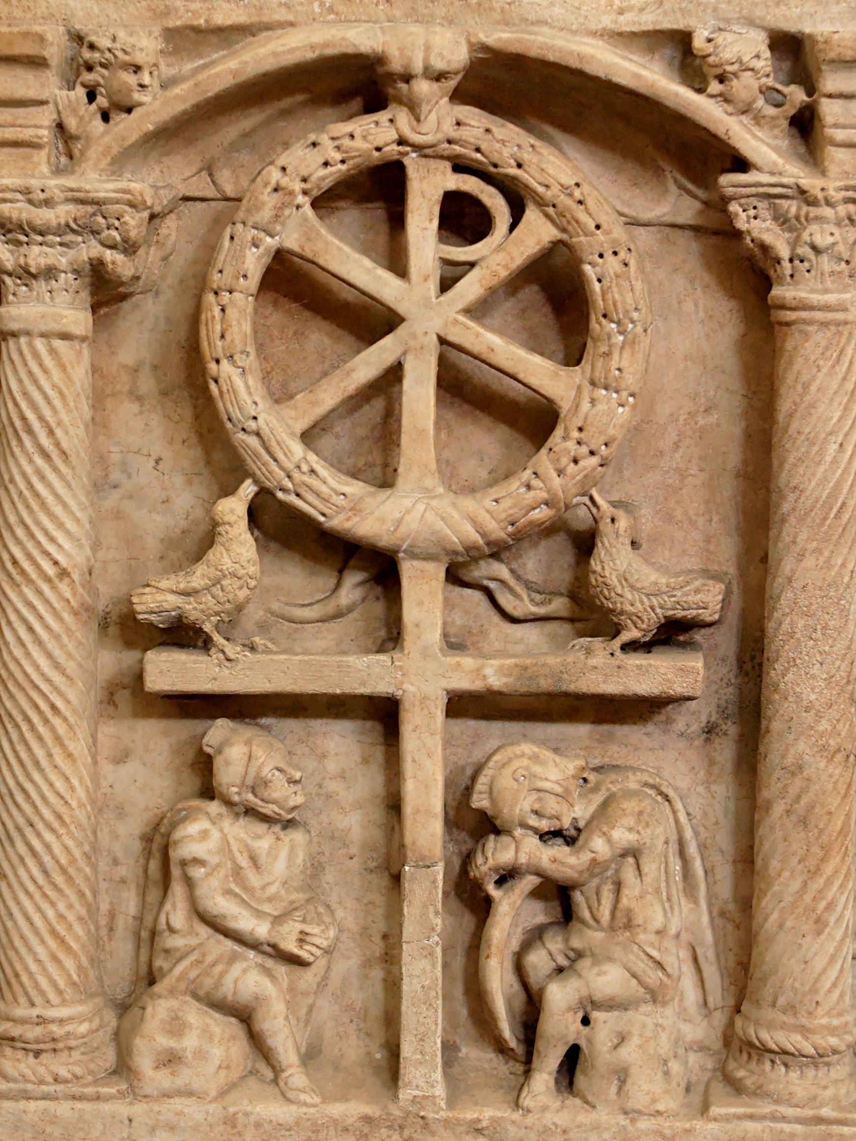 Anastasis, symbolic representation of the resurrection of Christ. Panel from a Roman lidless sarcophagus of the “Passion type”, ca. 350 CE. From the excavations of the Duchess of Chablais at Tor Marancia, 1817-1821.